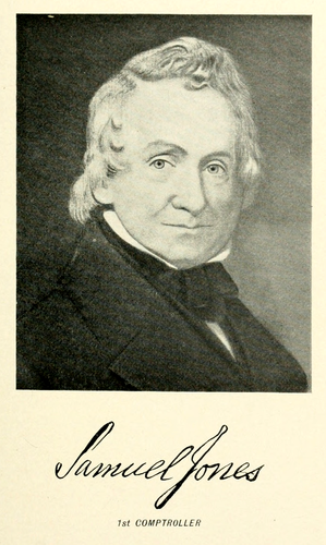 Image of Samuel Jones, New York State Comptroller, 1797-1800 Other information Originally from Roberts, James A.; _A Century in the Comptroller's Office, State of New York, 1797 to 1897_; Albany NY, James B. Lyon; 1897. Digitized by Richard J. Shiffer.